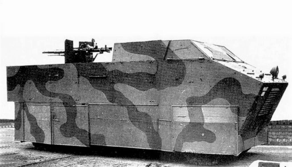 Leyland Retriever type C Armored Tender "Beaver-Eel" with skirts and RAF markings.